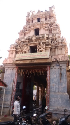 Thanjavur Thanjapurisvarartemple தஞ்சாவூர் தஞ்சபுரீஸ்வரர் கோயில்